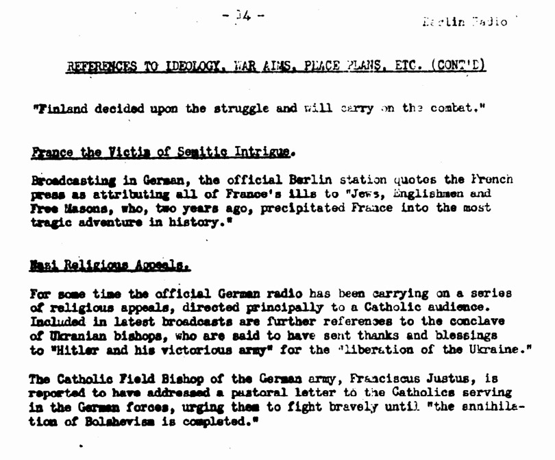 US foreign broadcast information service 1941 --- Nazi-Religious-Appeals